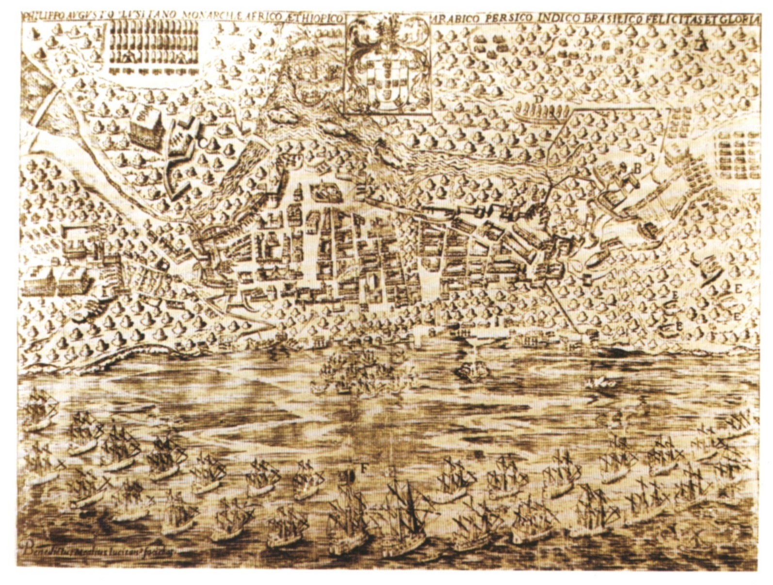 Engraving by Benedictus Mealius Lusitanus, in Jornada dos Vassalos da Coroa de Portugal, by pray Bartolomeu Guerreiro. Printed in Lisbon, 1625.